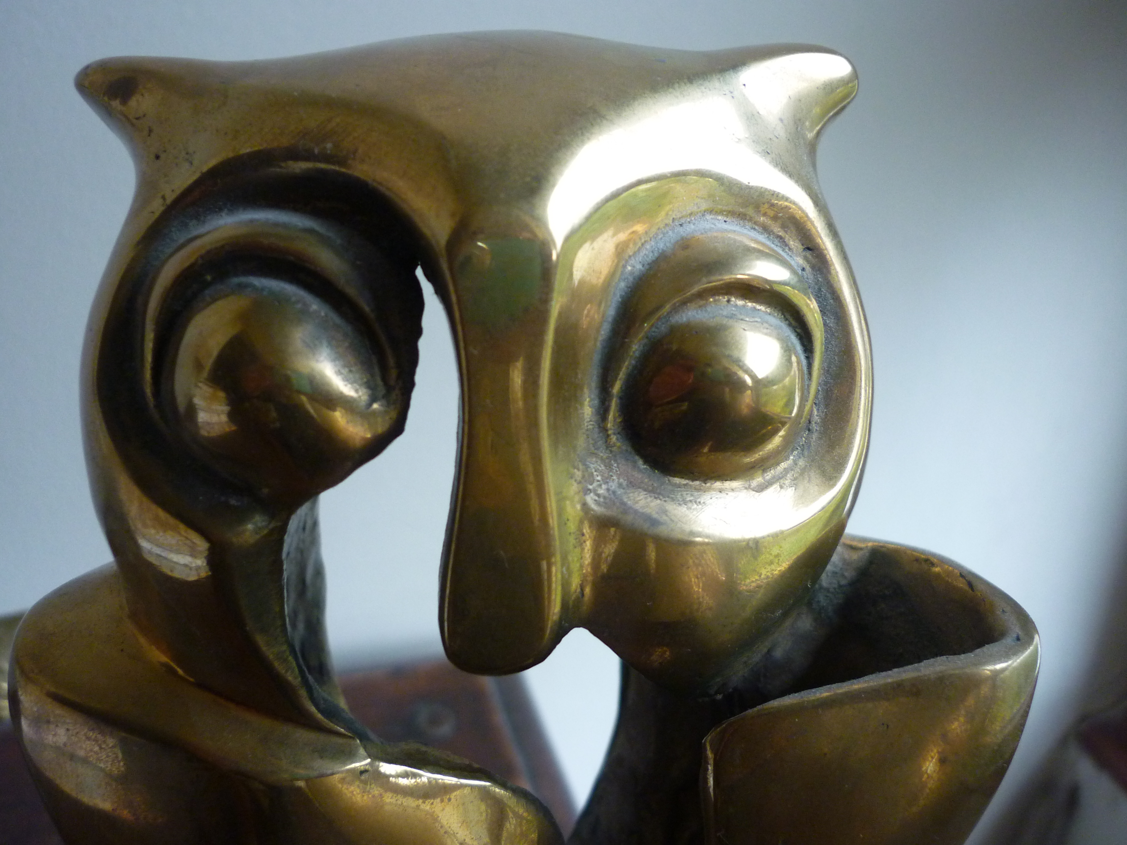 The trophy of the Danov Award (fragment) by Diana Raynova